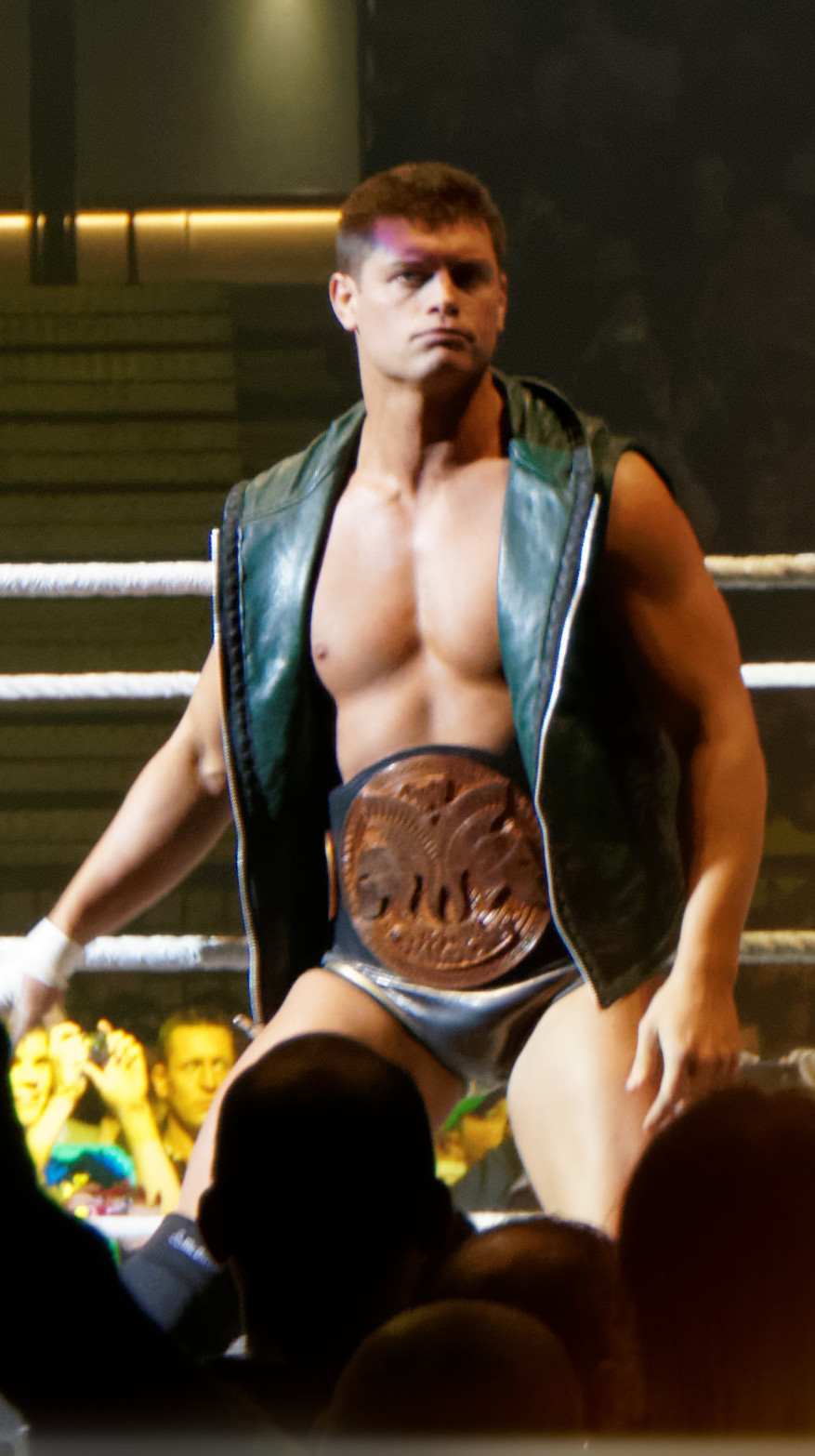 WWE Tag Team Champion Cody Rhodes at a WWE event on November 8, 2013. Cropped from original.